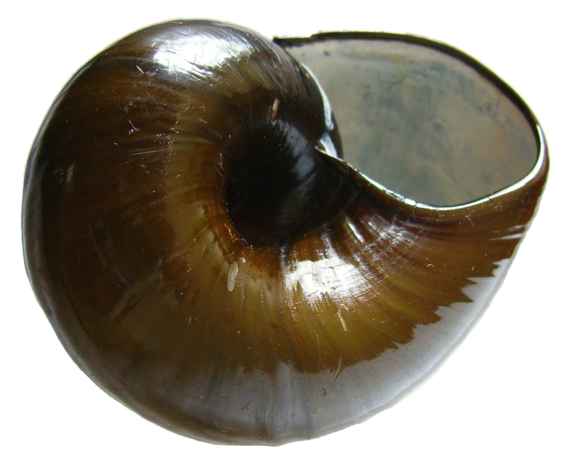 Paryphanta busbyi (underside view) from Kaeo, Northland, New Zealand.